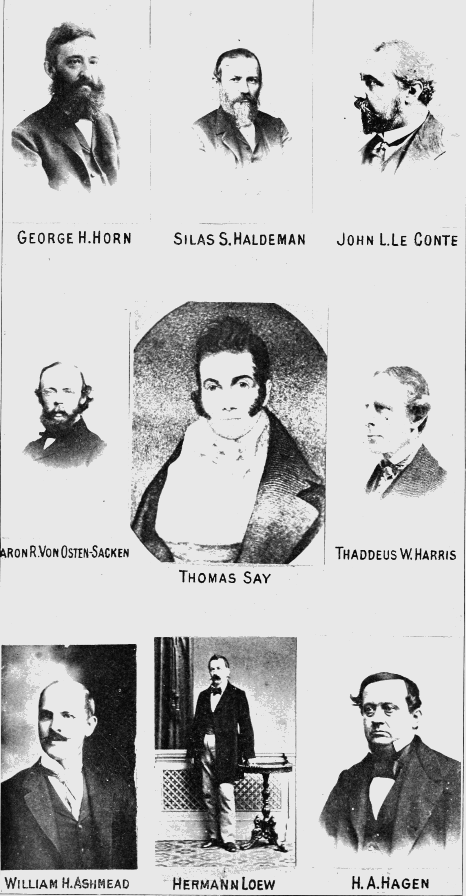 Entomologists: George H. Horn Silas S. Haldeman John Lawrence Le Conte R von Osten-Sacken Thomas Say Thaddeus William Harris William Harris Ashmead Hermann Loew H A Hagen